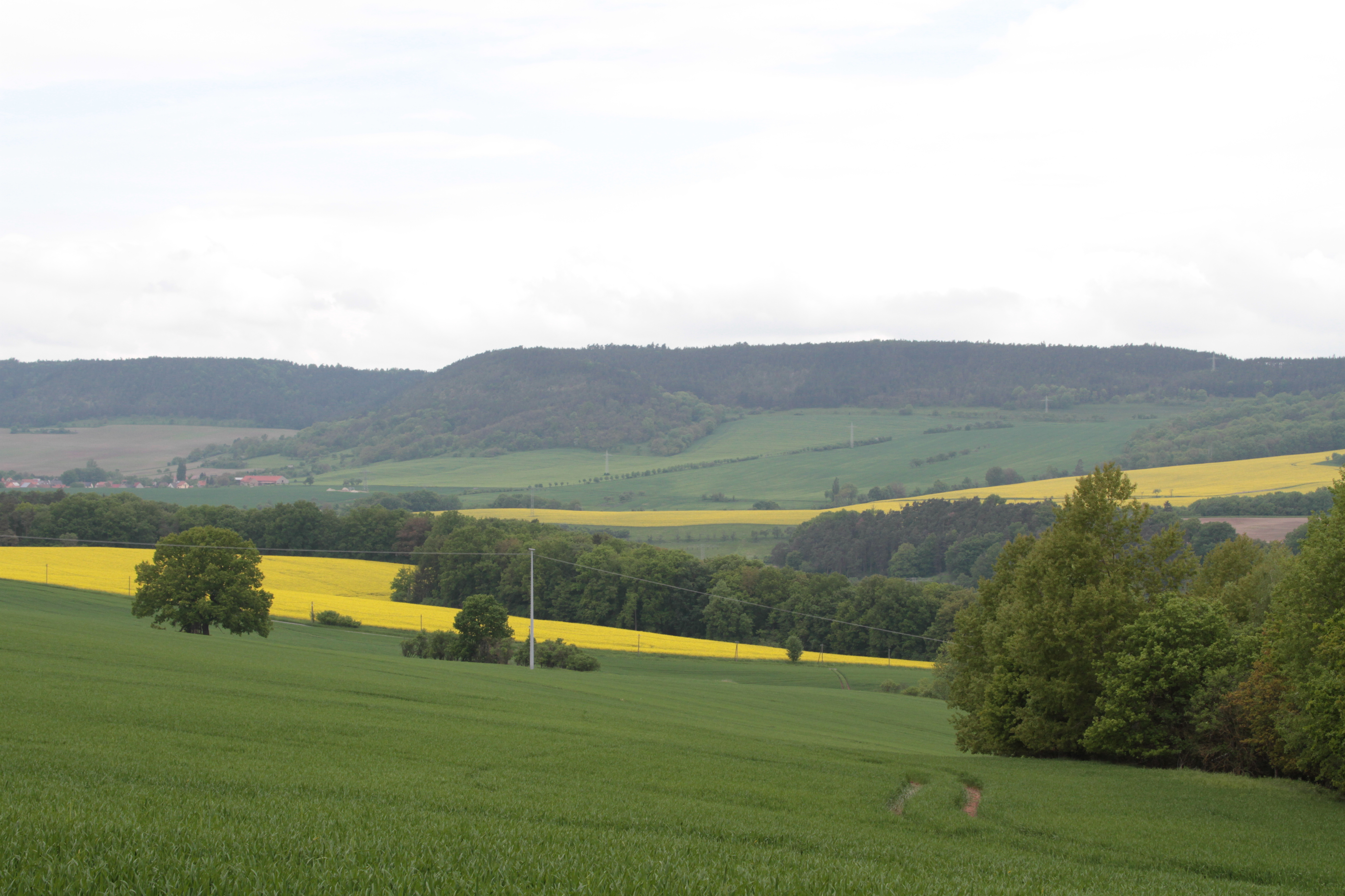 The Walpersberg, former site of REIMAHG-A Messerschmitt Me 262 underground factory